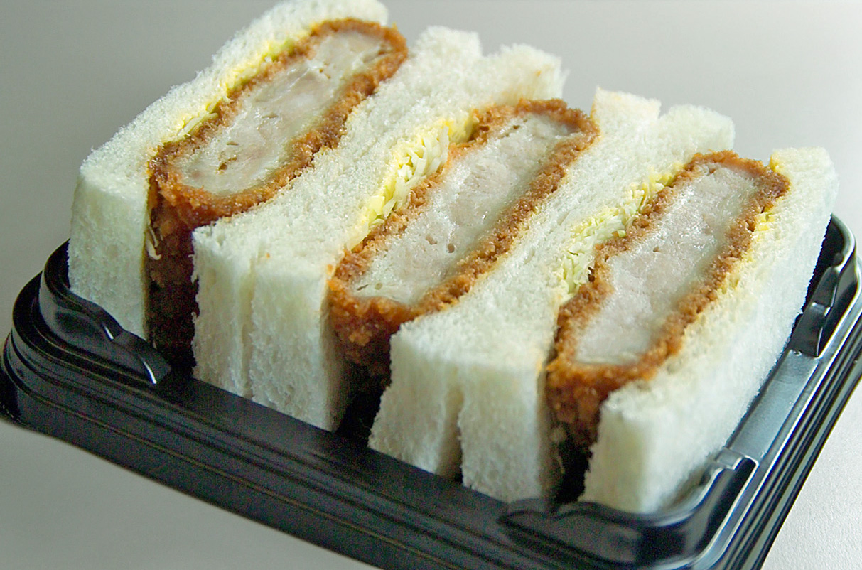 Katsu sando かつサンド, deep-fried pork cutlet served as a sandwich on a Shinkansen train.